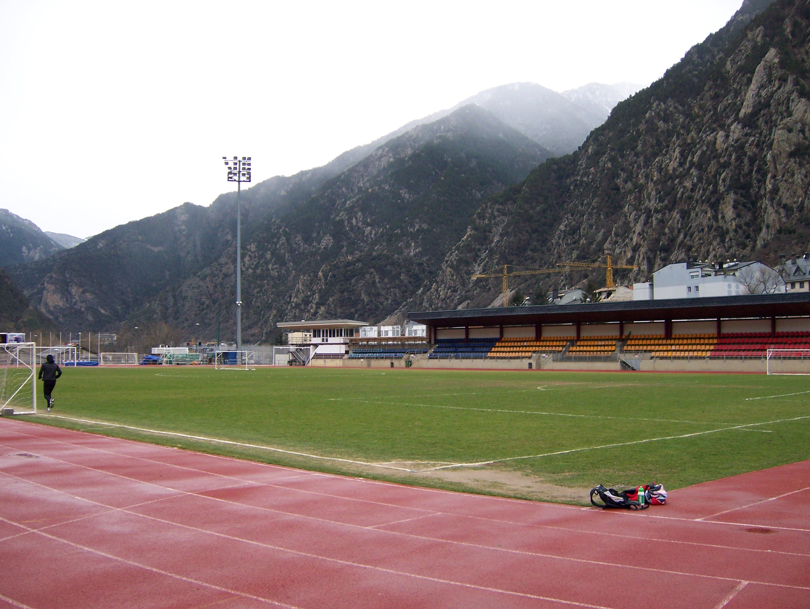 Estadi Comunal d’Andorra la Vella is the largest capacity stadium in Andorra.